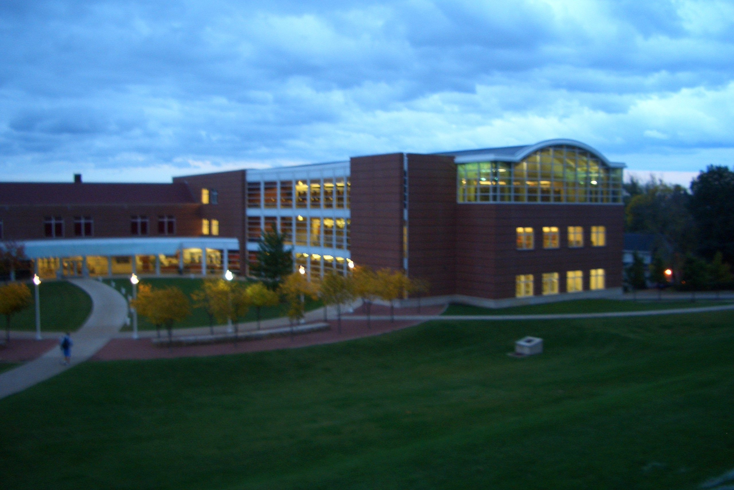 Carla Schmidt, picture taken, at Loras, of the Academic Resource Center